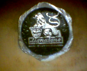 lignatone logo